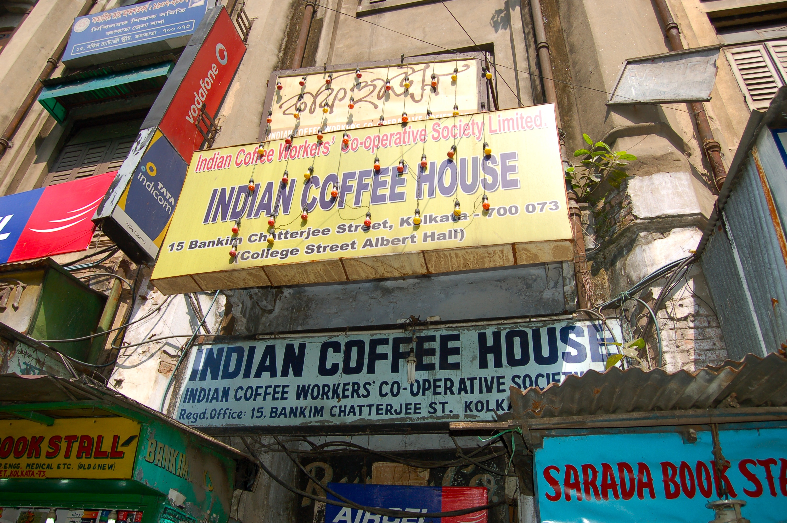 Indian Coffee House, Indian Coffee Worker's co-operative society.